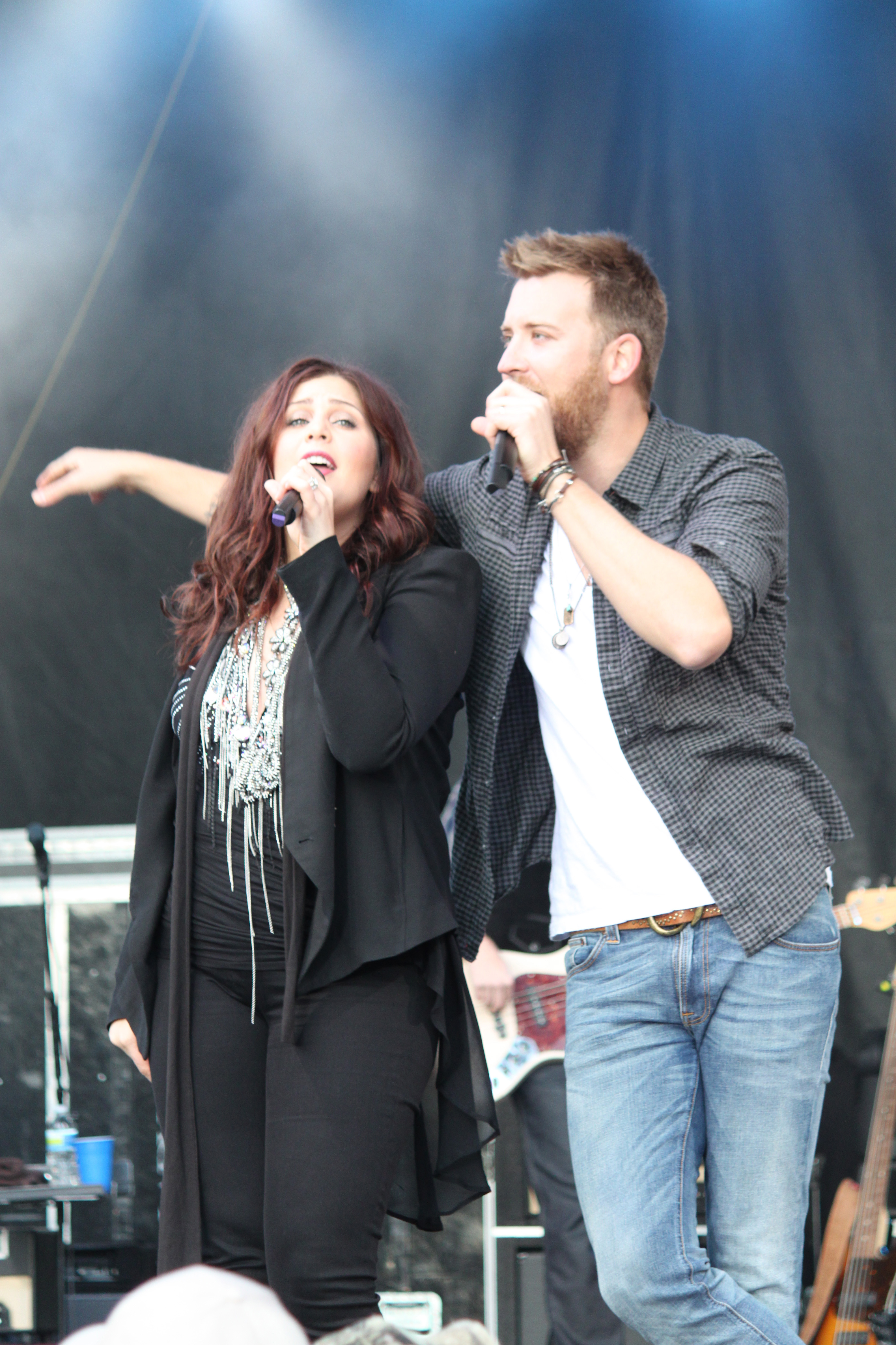 Lady Antebellum play in Charlotte